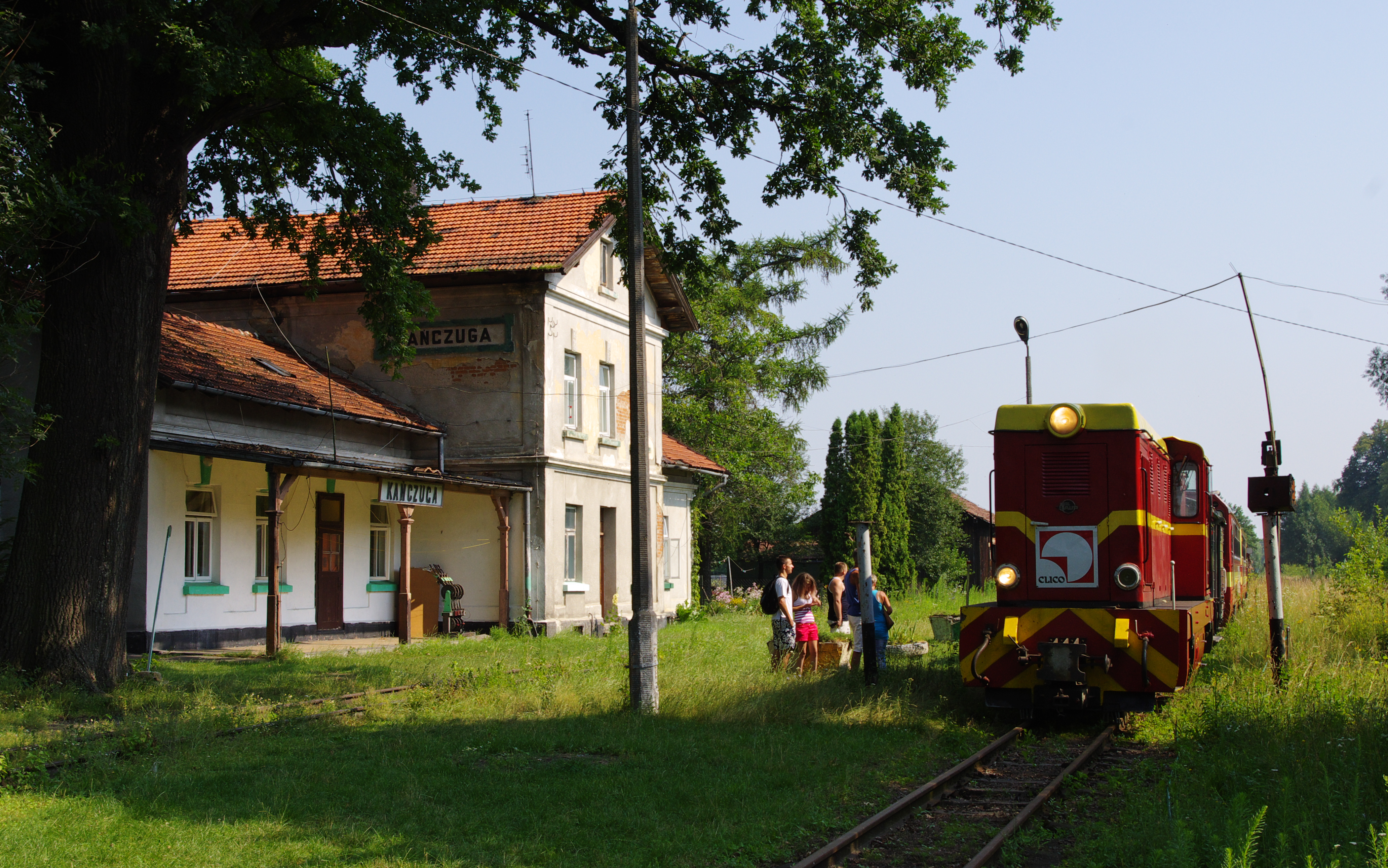 Train Station in Kańczuga